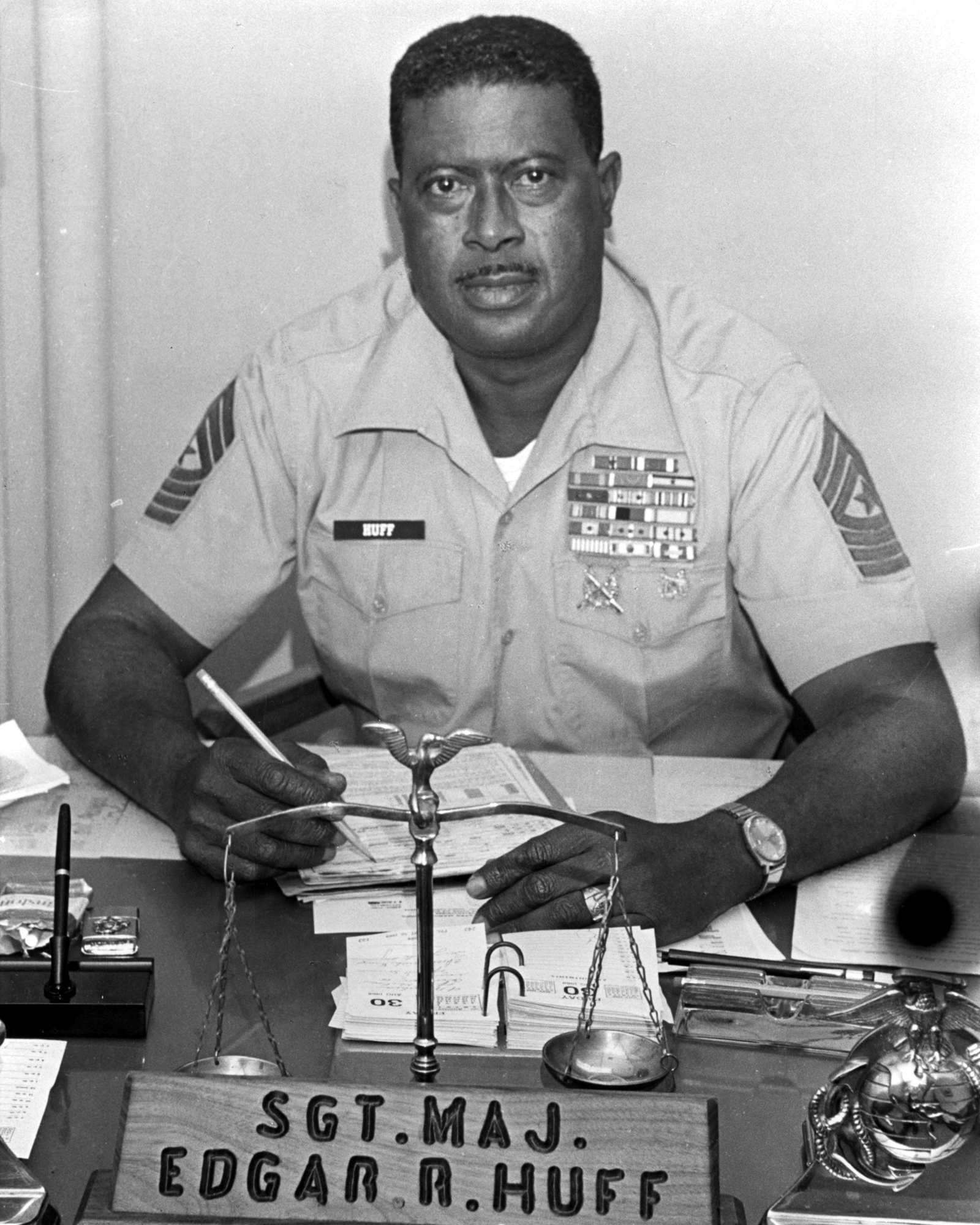 Sergeant Major Edgar R. Huff, USMC (1920-1994); first African-American U.S. Marine Corps Sergeant Major Source: Official Marine Corps biography URL